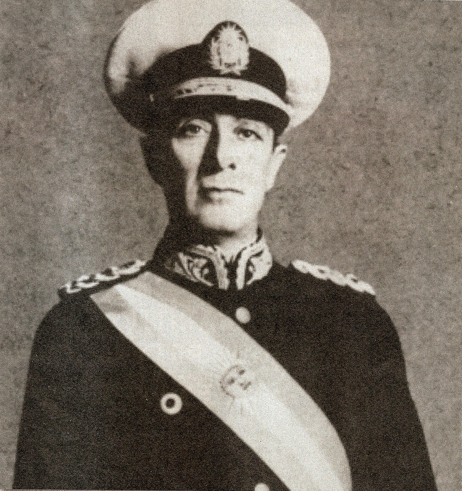 Pedro Pablo Ramírez, president of Argentina during the 43 Revolution